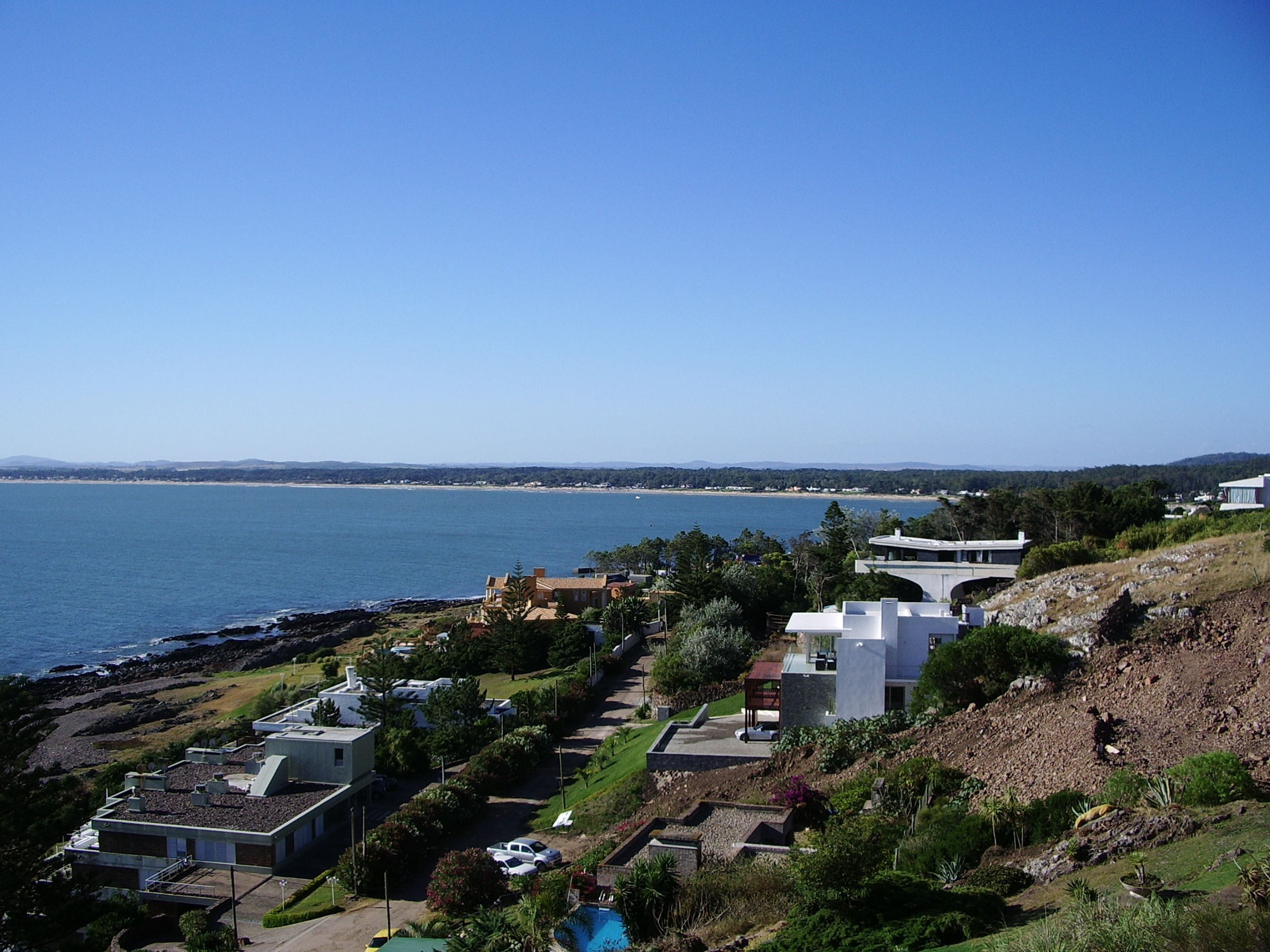 Portezuelo /Punta Ballena dede Casapueblo